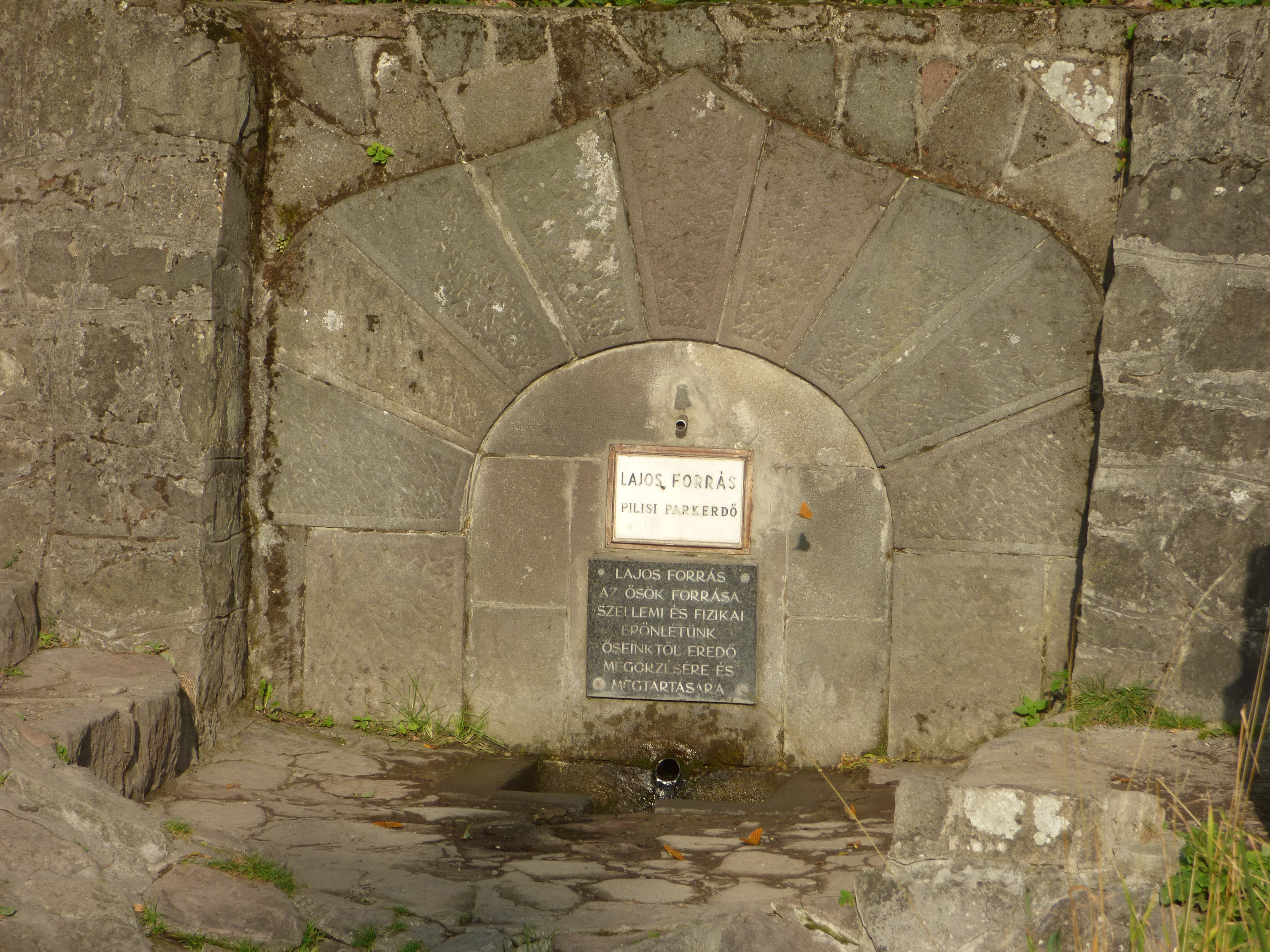 A Lajos-forrás